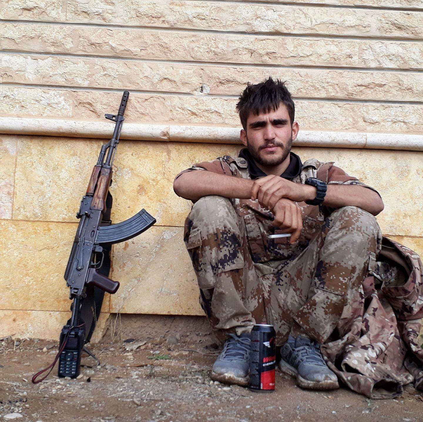 A YPG fighter rests during Operation Olive Branch.